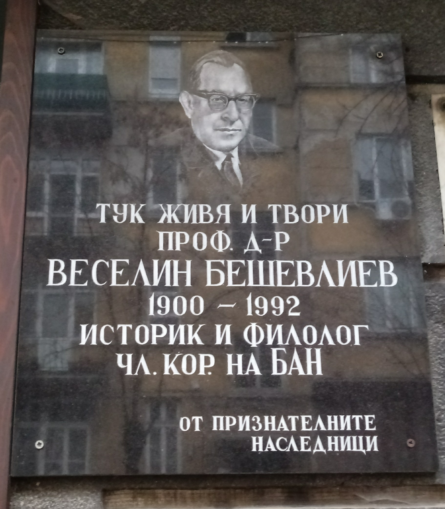 Veselin Beshevliev memorial plaque, 2 Lyuben Karavelov Str., Sofia